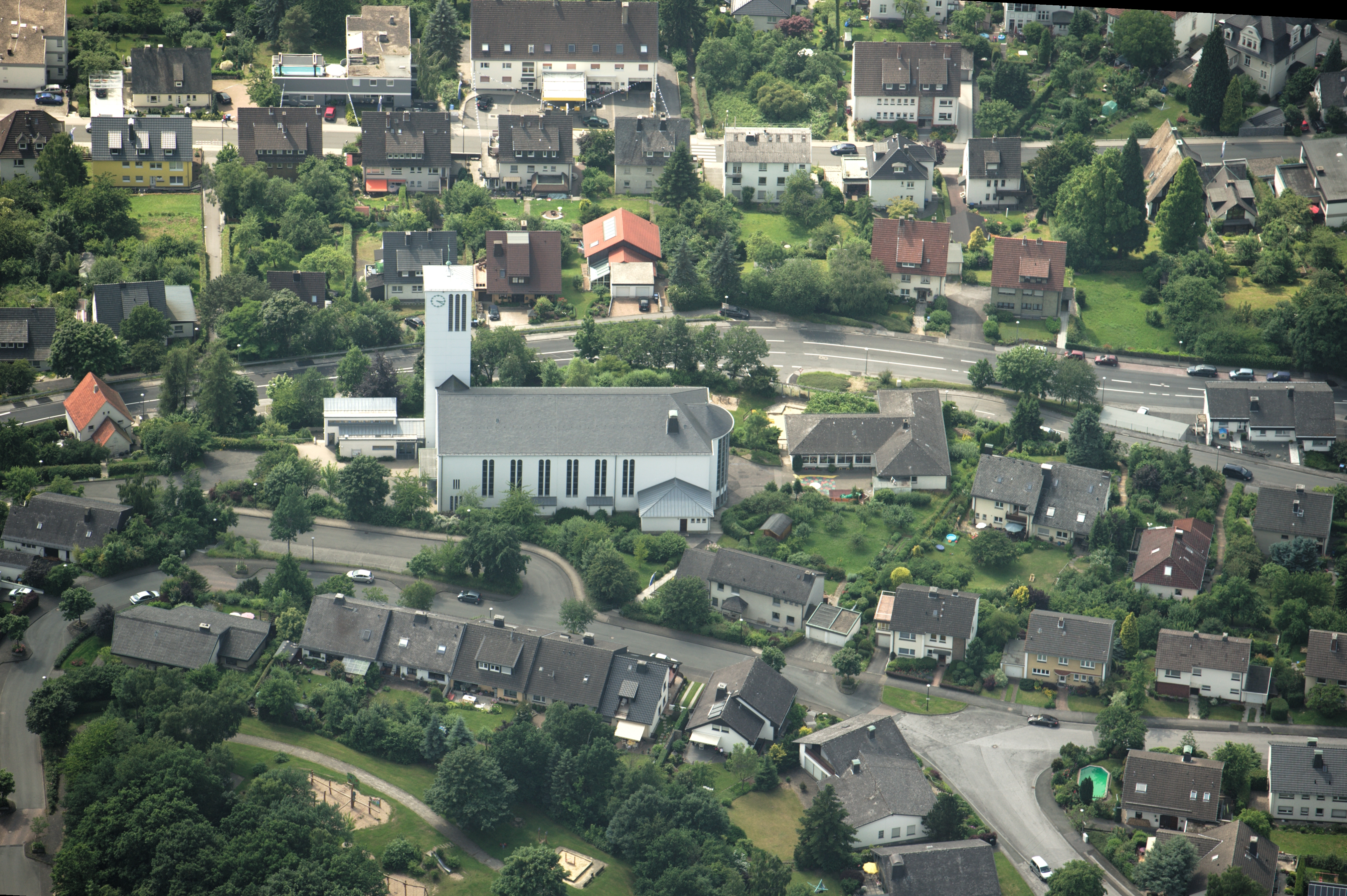 Fotoflug Sauerland-Ost - Arnsberg, Neustadt mit Piuskirche The making of this document was supported by the Community-Budget of Wikimedia Germany.